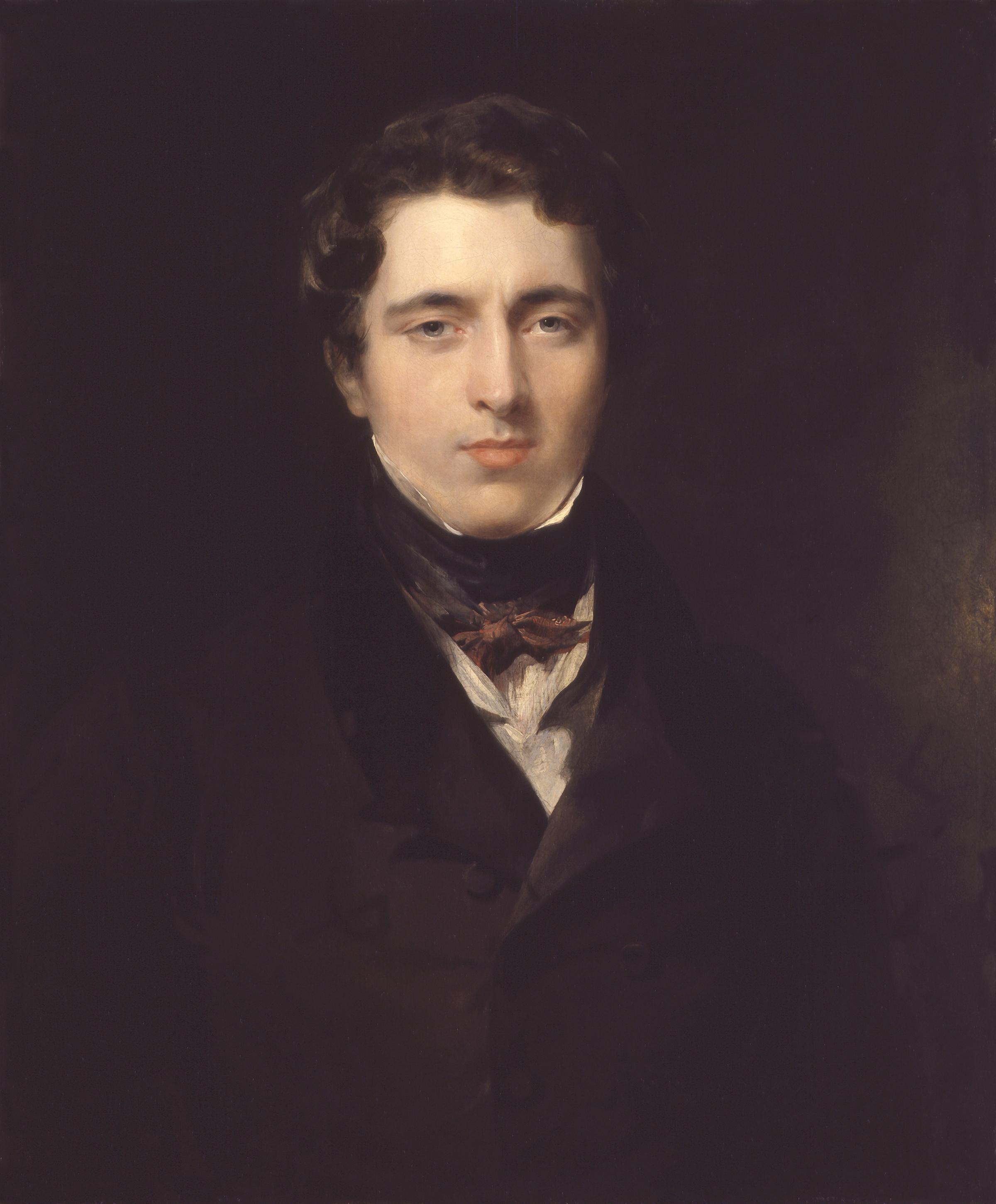 Richard Parkes Bonington, by Margaret Sarah Carpenter (née Geddes) (died 1872). All images in this batch have been confirmed as author died before 1939 according to the official death date listed by the NPG.